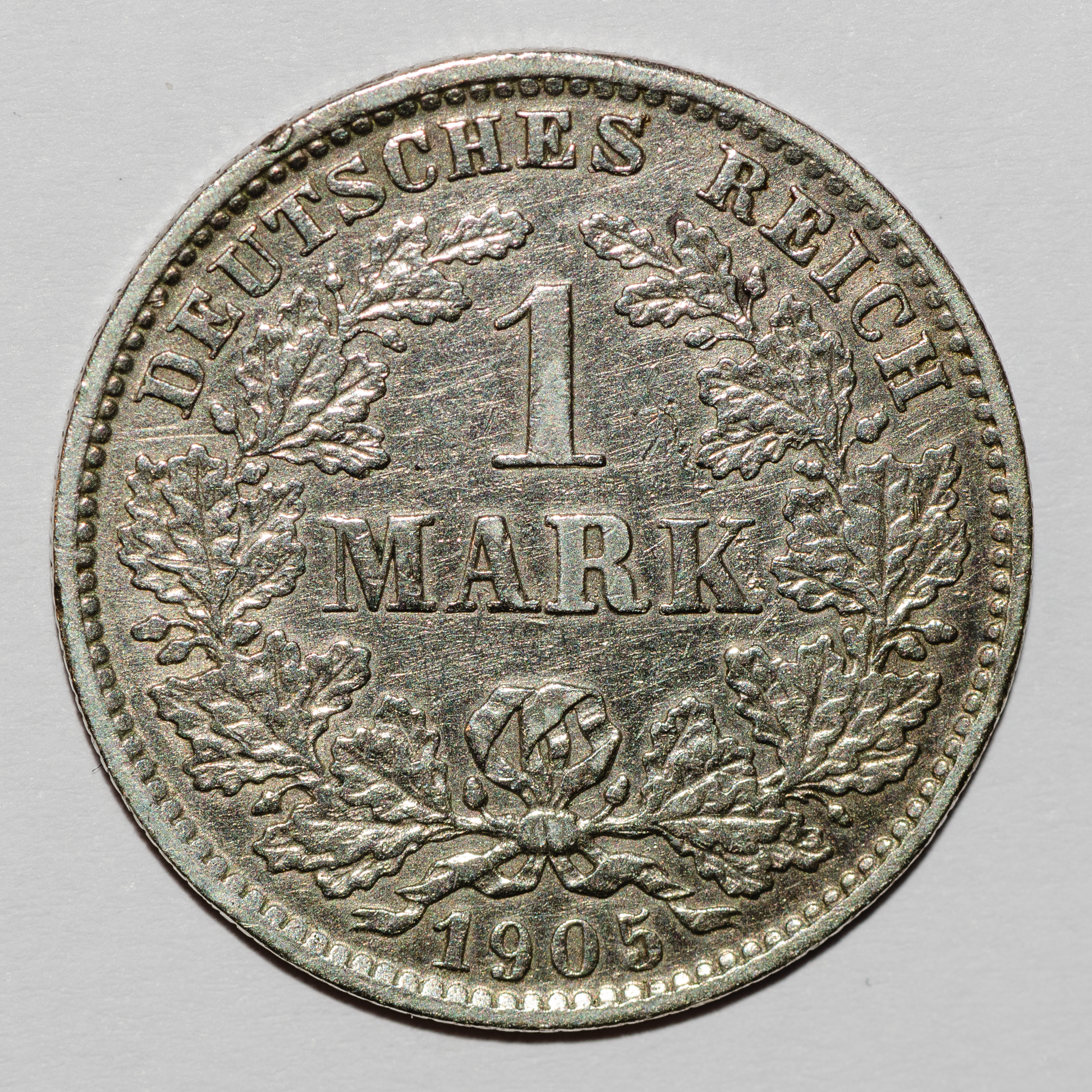 1 Mark from the German Empire, 1905, front